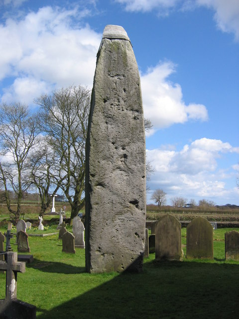 Rudston, East Riding of Yorkshire, England.Monolith. The stone stands almost 26ft high next to Rudston Parish Church of all Saints. Made form Moor Grit Conglomerate from the Late Neolithic Period. This material can be found in the Cleveland Hills inland from Whitby. This view to its wide face looking NE towards the B1253.